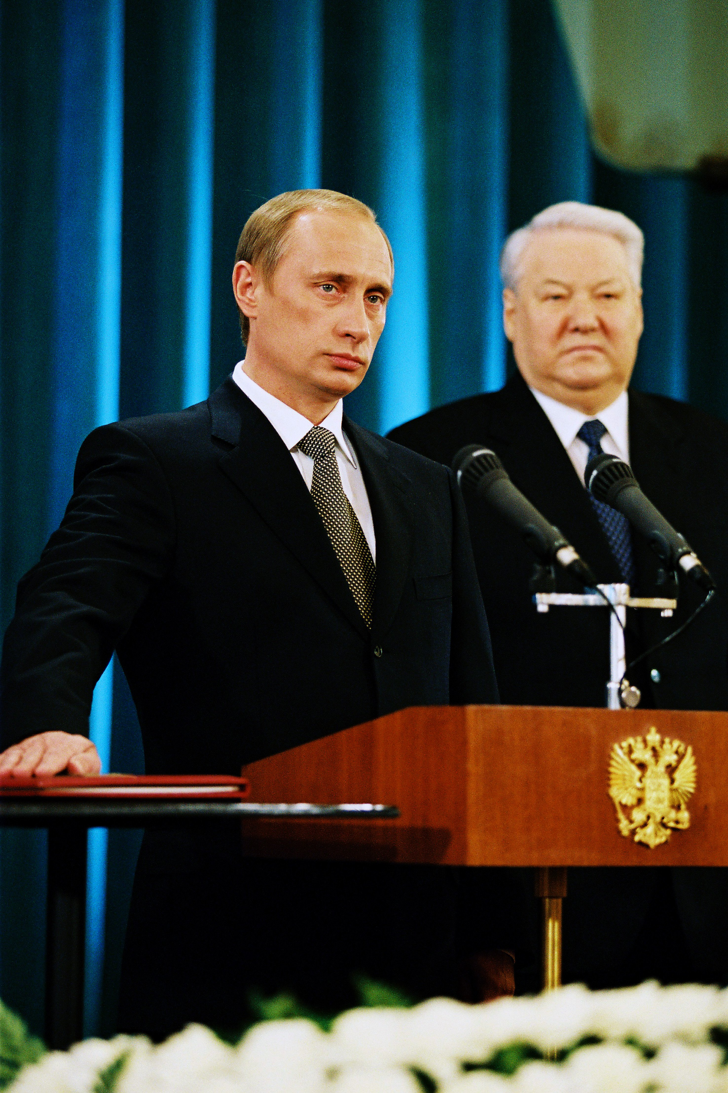 ST ANDREW HALL IN THE GRAND KREMLIN PALACE, MOSCOW. The inauguration of President Vladimir Putin. Mr Putin takes the oath to the people of Russia.